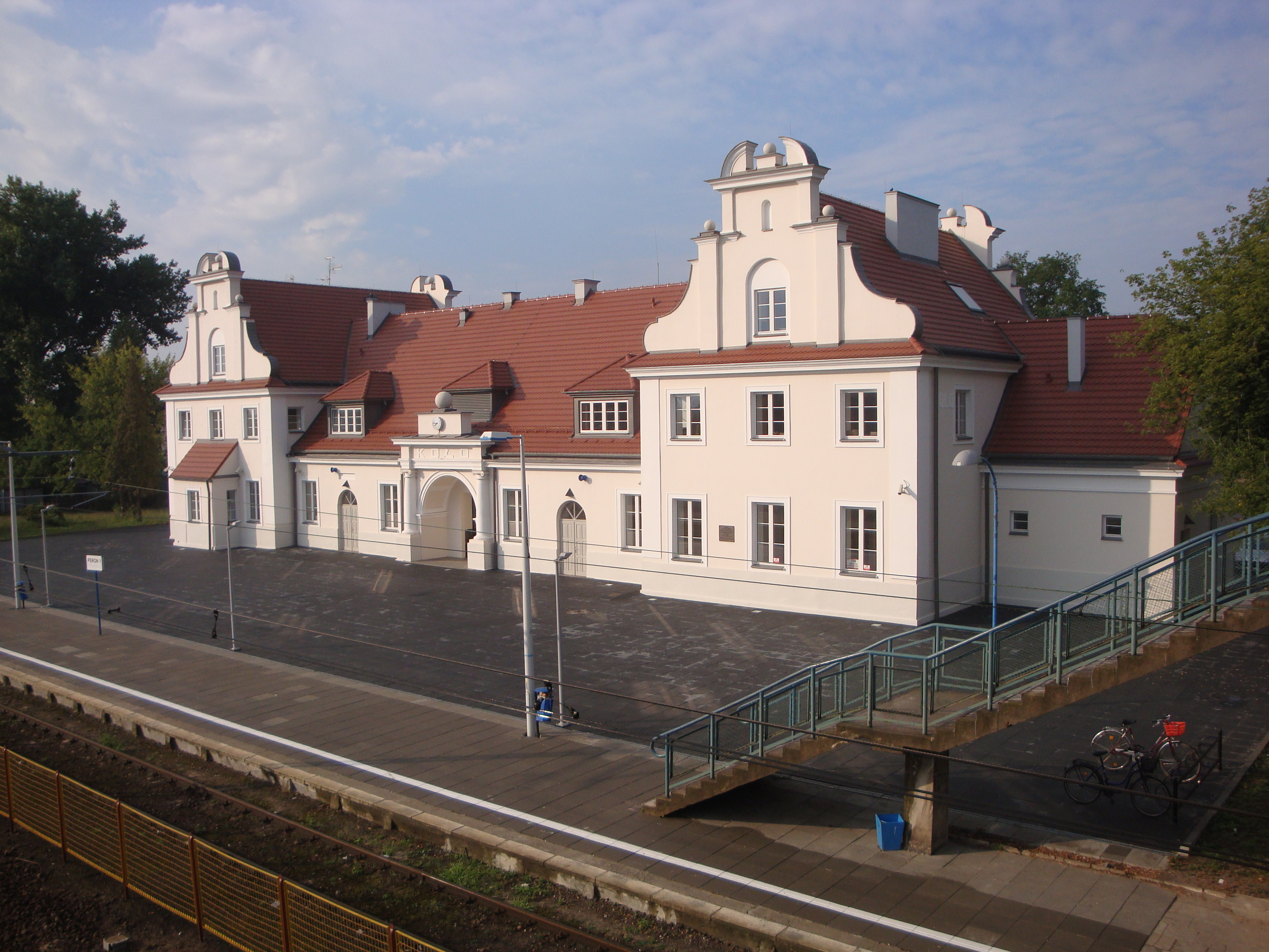 Dworzec kolejowy w Kole. This photo was taken during Railway Wikiexpedition 2013 set up by Wikimedia Polska Association. You can see all photographs in category Wikiekspedycja kolejowa 2013. English | Polski | +/−